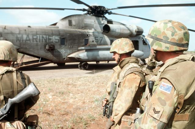 Sourced from: Details: ID: DNST9302615 Service Depicted: Other Service Members of the 1st Royal Australian Regiment board a Marine Heavy Helicopter Squadron 363 (HMH-363) CH-53D Sea Stallion helicopter during the multinational relief effort OPERATION RESTORE HOPE. They are escorting bags of grain donated by Australia being delivered to the village of Maleel. The grain is being flown in instead of driven because it is suspected that the roads leading to Maleel have been mined. Camera Operator: PHCM TERRY C. MITCHELL Date Shot: 1 Jan 1993